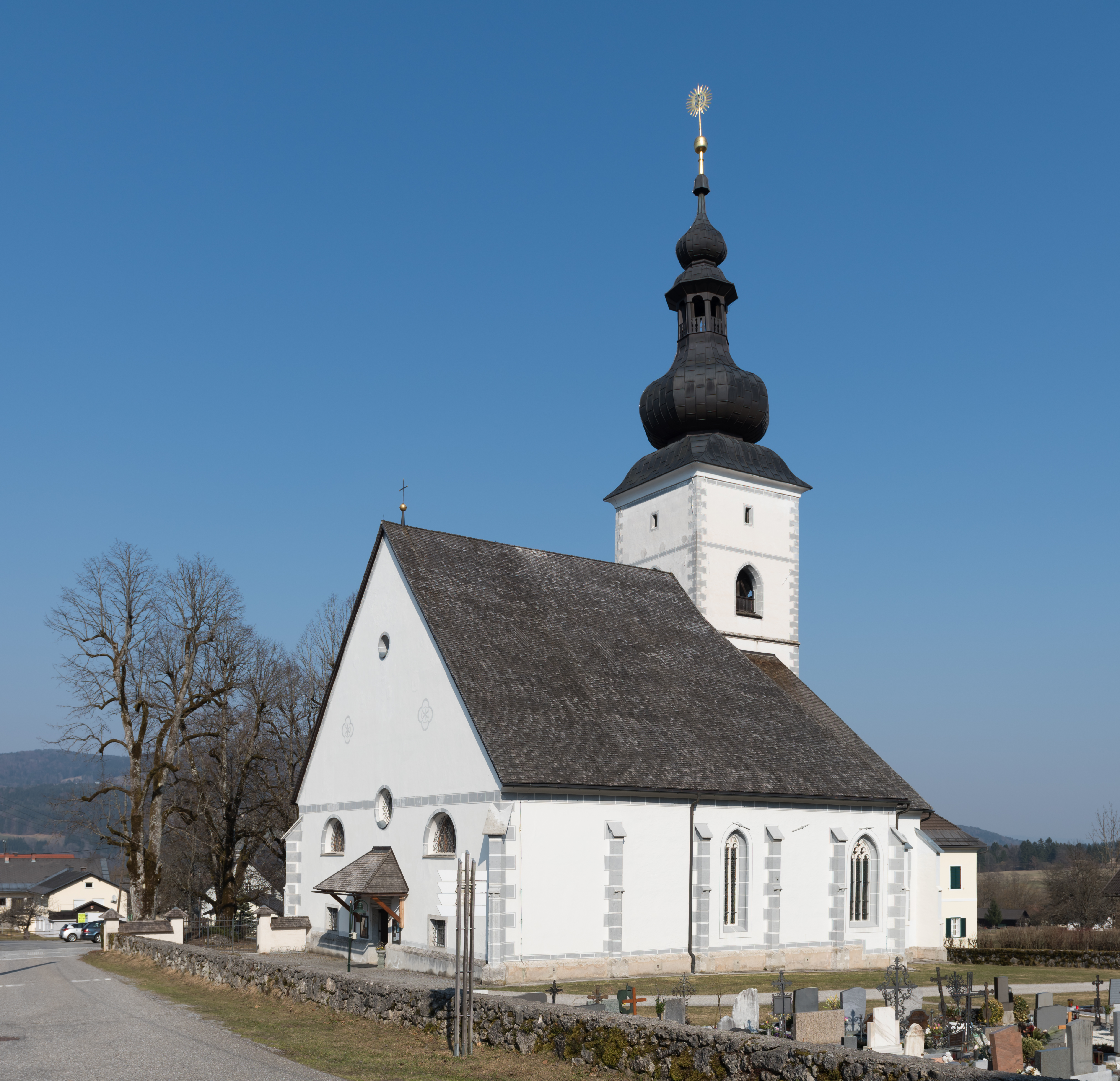 Parish and pilgrimage church Mary Misery in Maria Elend, market town Sankt Jakob im Rosental, district Villach Land, Carinthia, Austria, EU